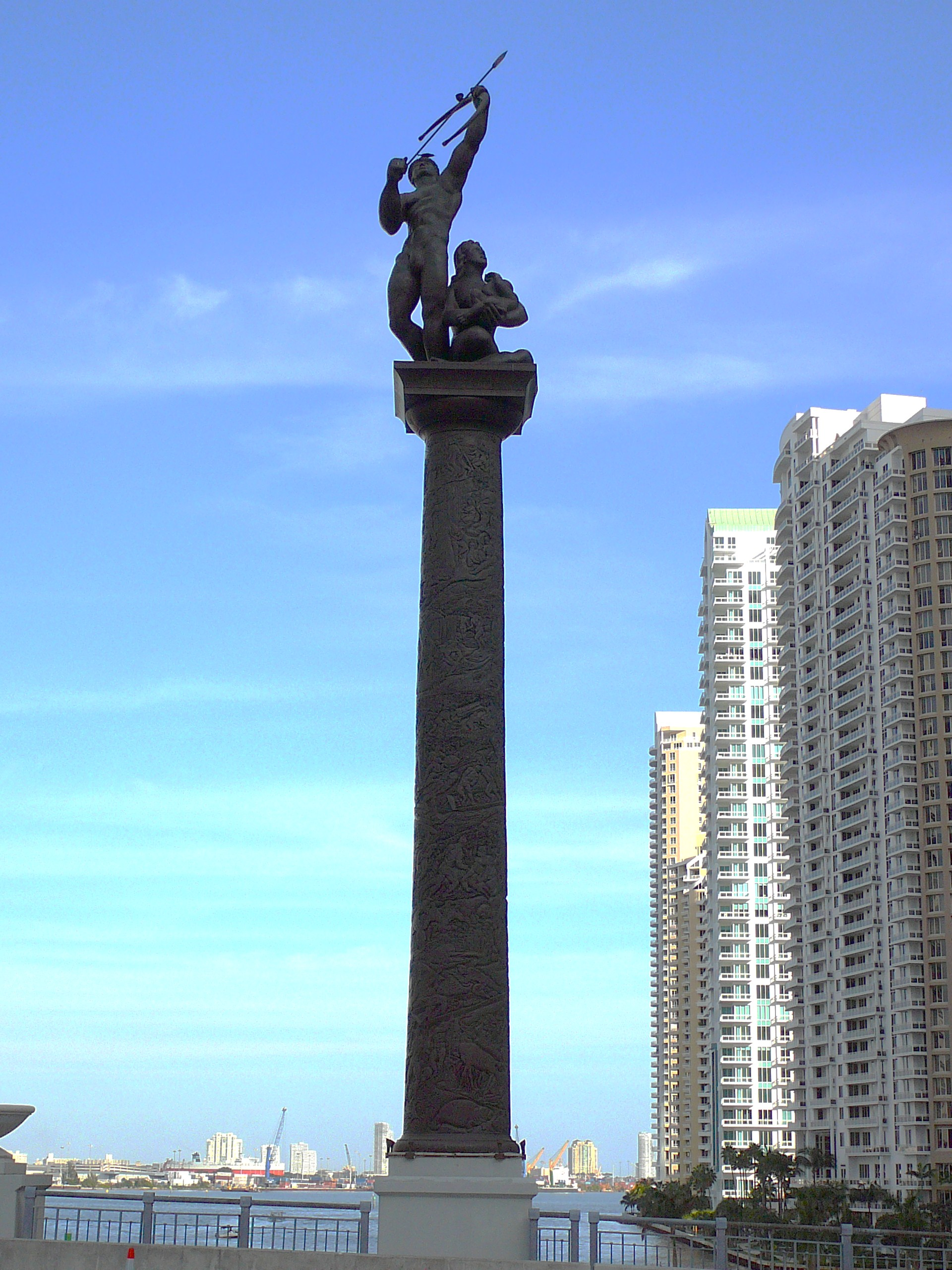 Digital photo taken by Marc Averette. Statue of American Indian on bridge connecting Brickell financial district with Downtown Miami over the Miami River. 11/25/2008.